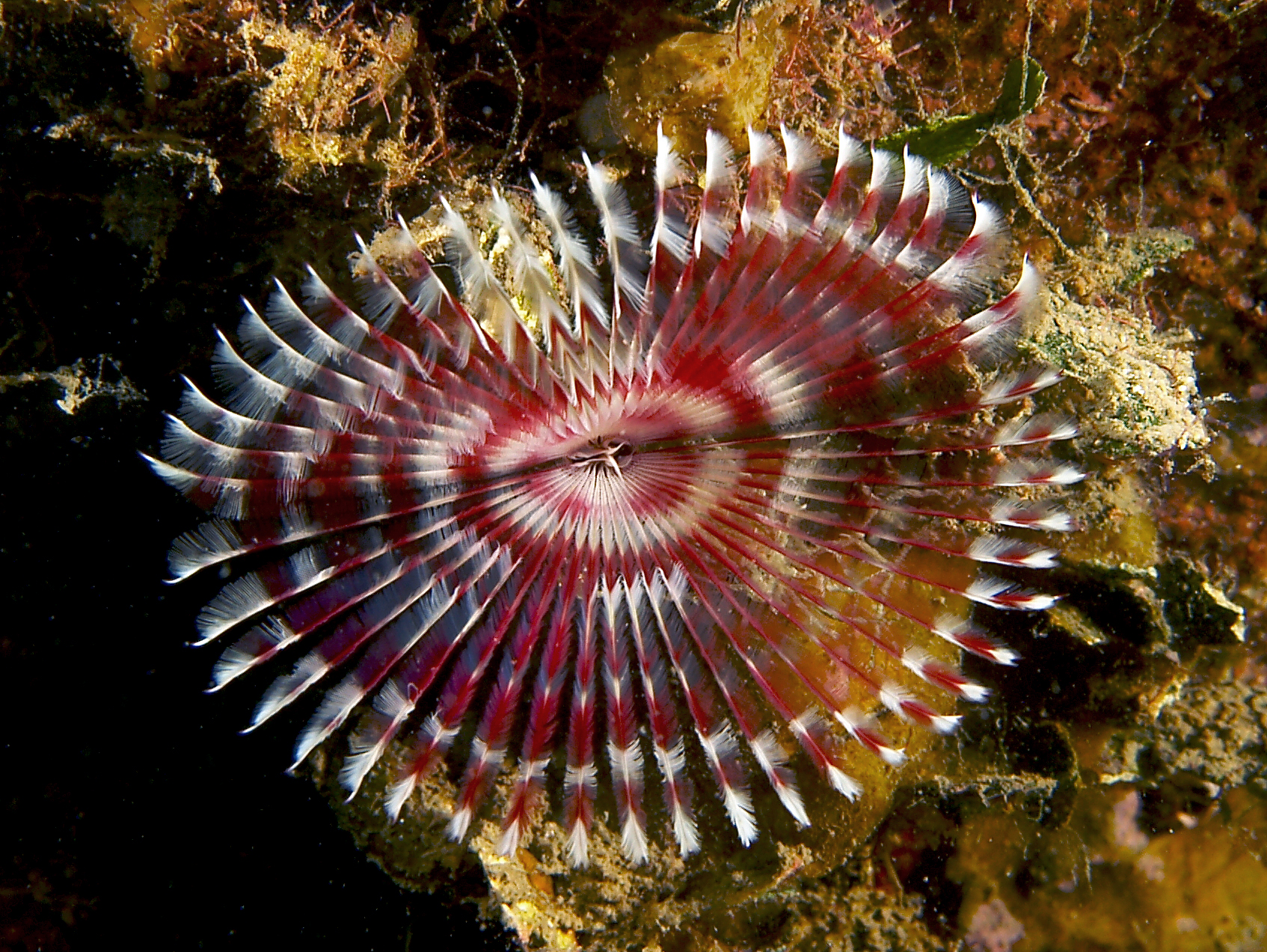 Anamobaea orstedii (Split-Crown Feather Duster - red variation)